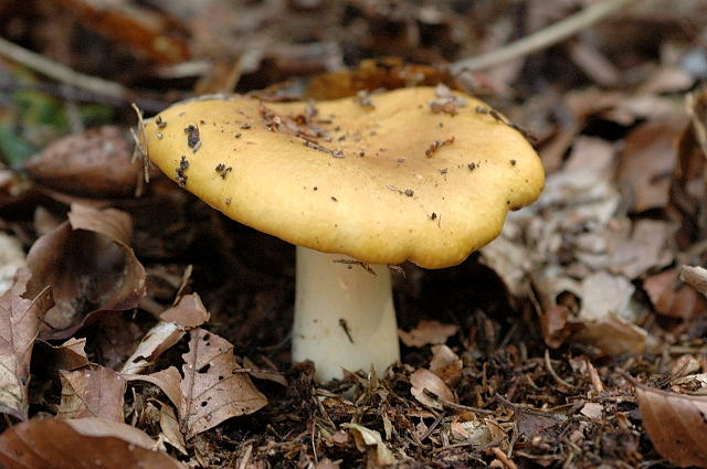 Russula ochroleuca from Commanster, Belgium. The determination of the species shown in this picture has been verified.